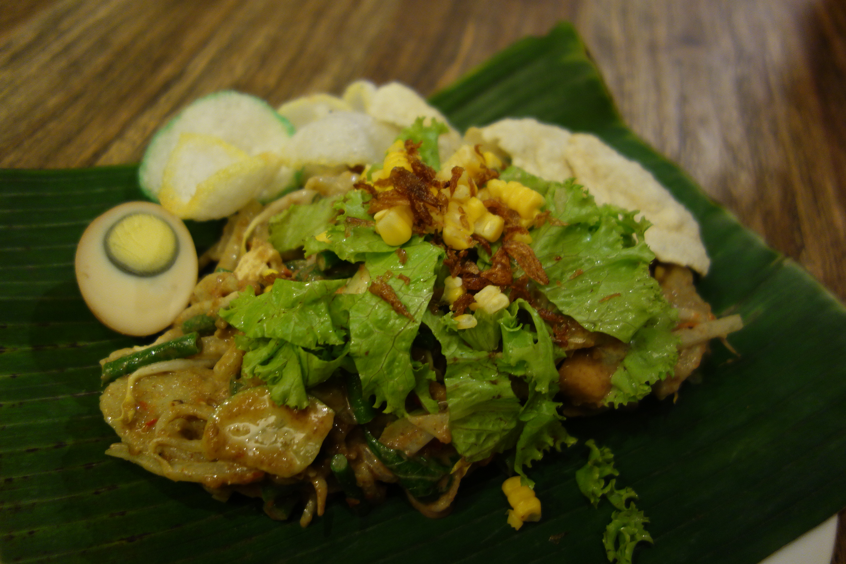 A portion of gado-gado salad in a restaurant in Jakarta